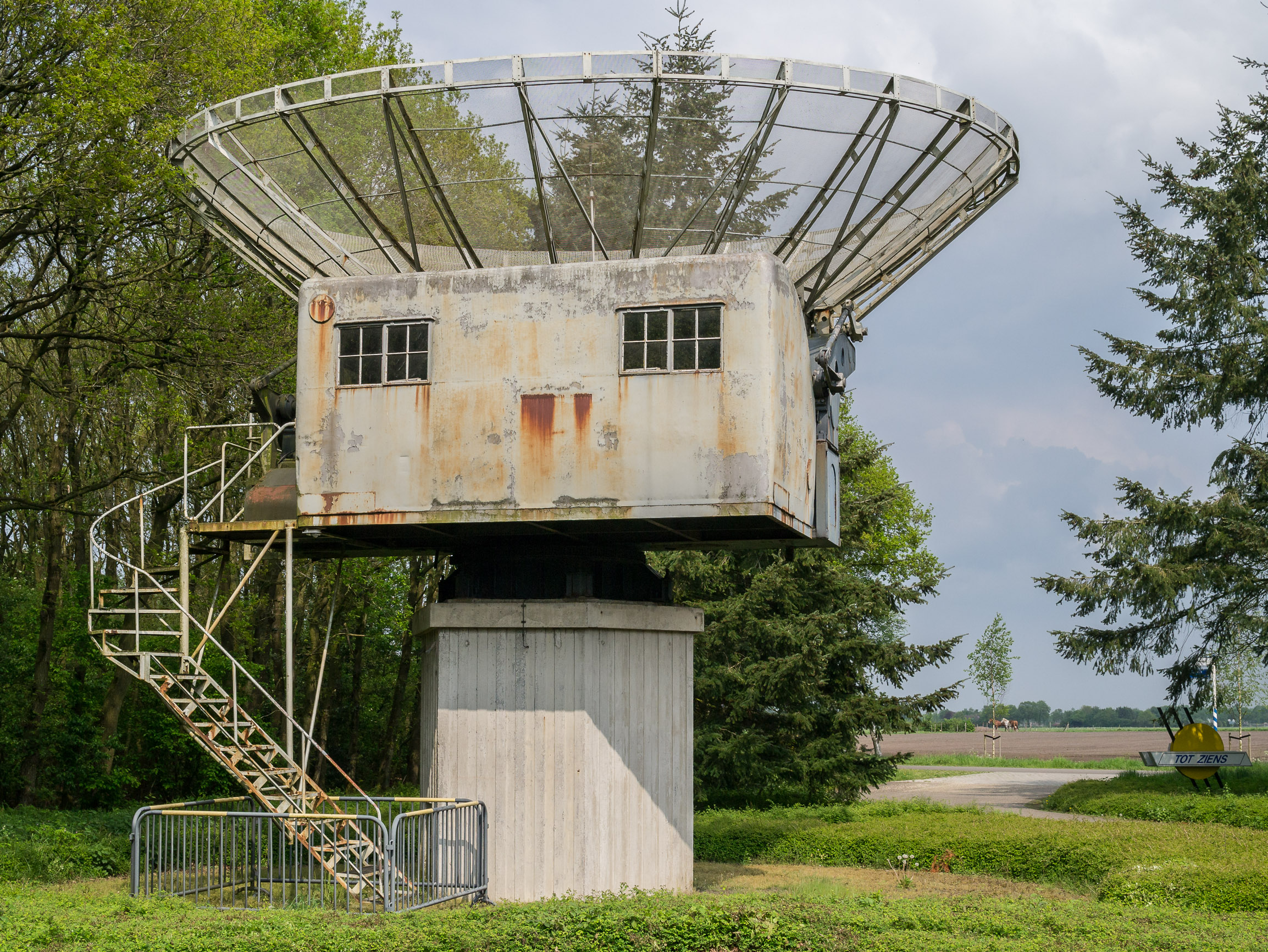 Würzburg Riese radar at the Planetron in Dwingeloo (NL)